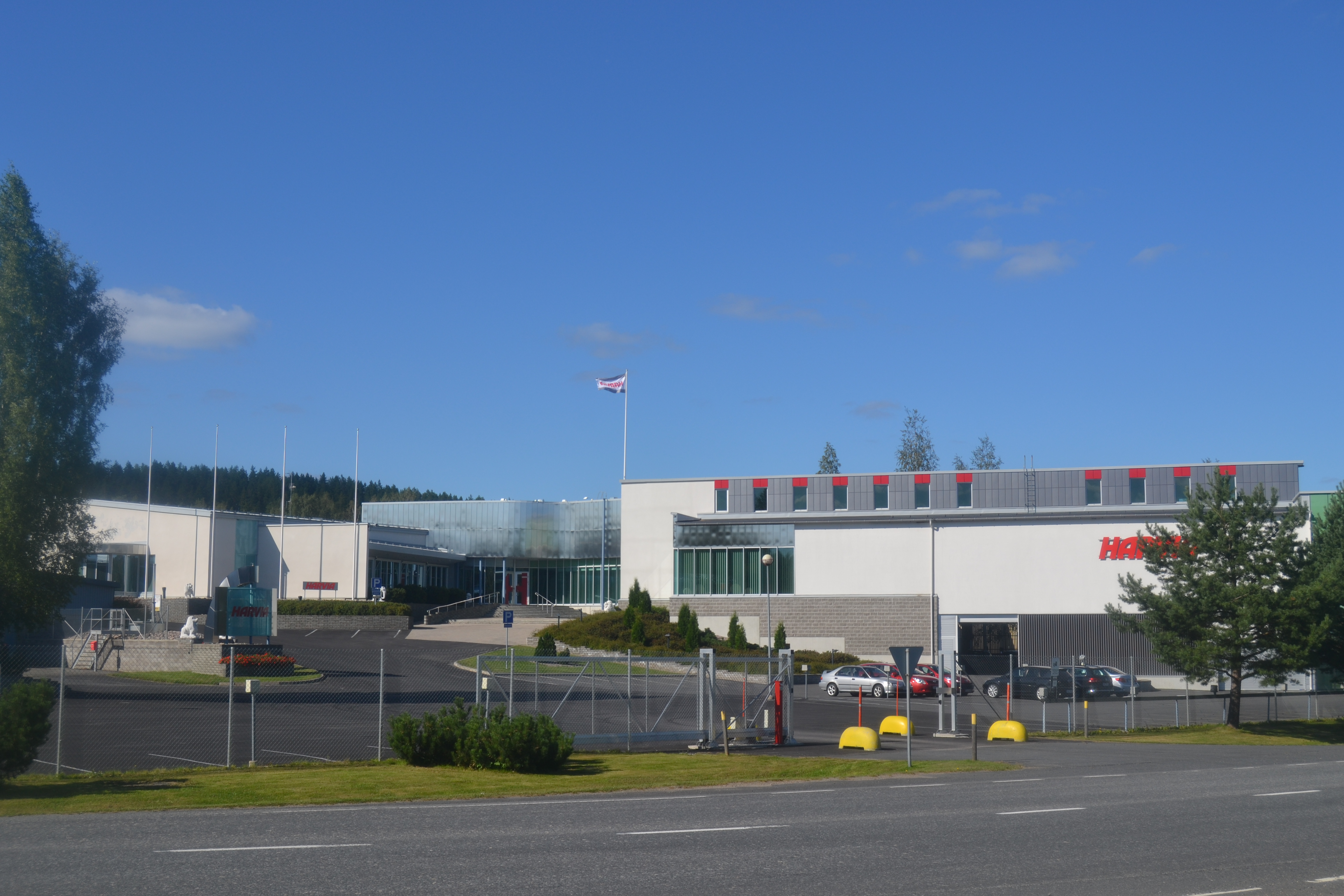 Harvia factory in Muurame, Finland